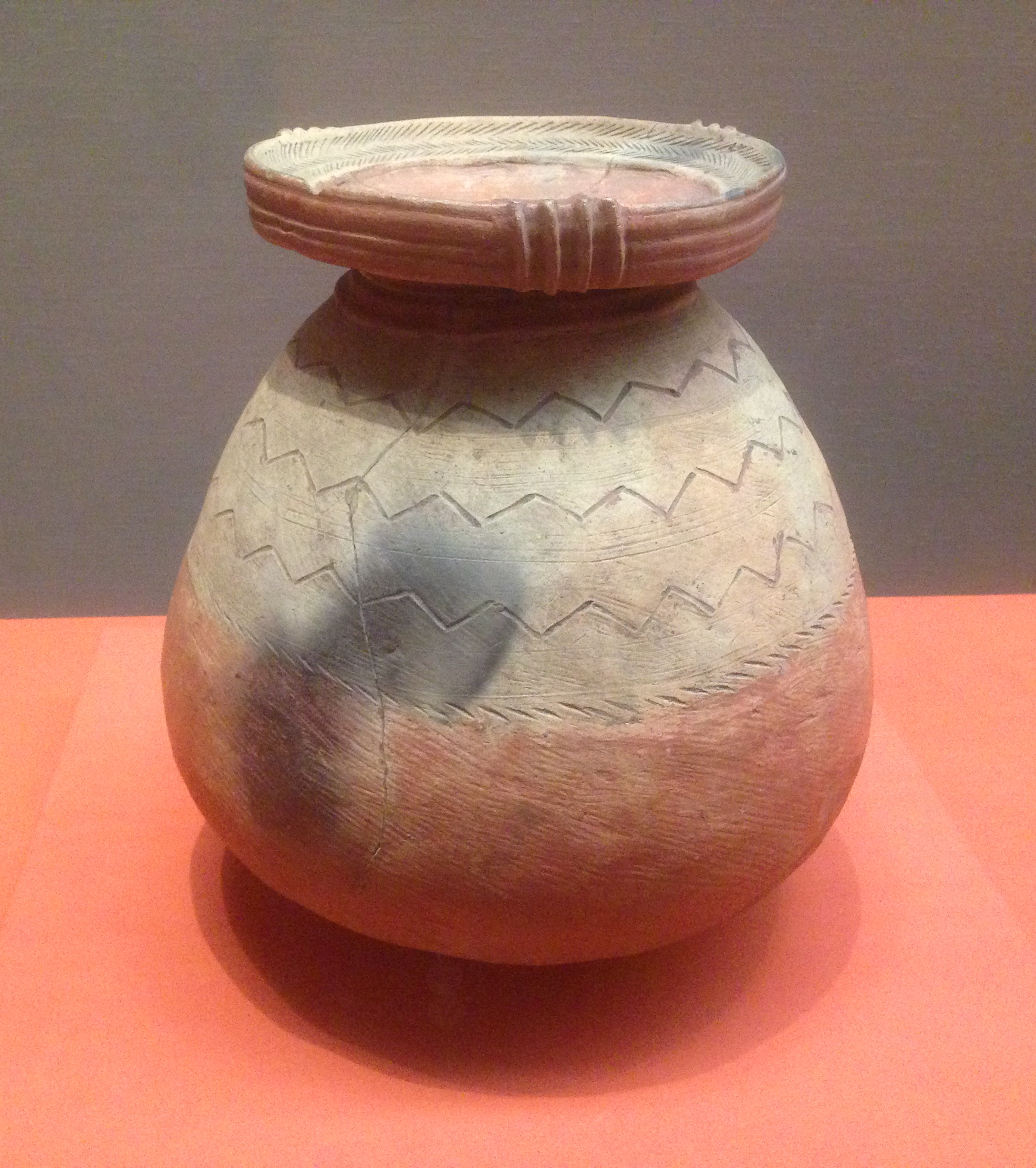 Burnished jar with red paint and incised decoration, Yayoi period, 1st-3rd c.. Takakura-cho site, Atguta-ku, Nagoya-shi, Aichi. Important Cultural Property. Tokyo National Museum